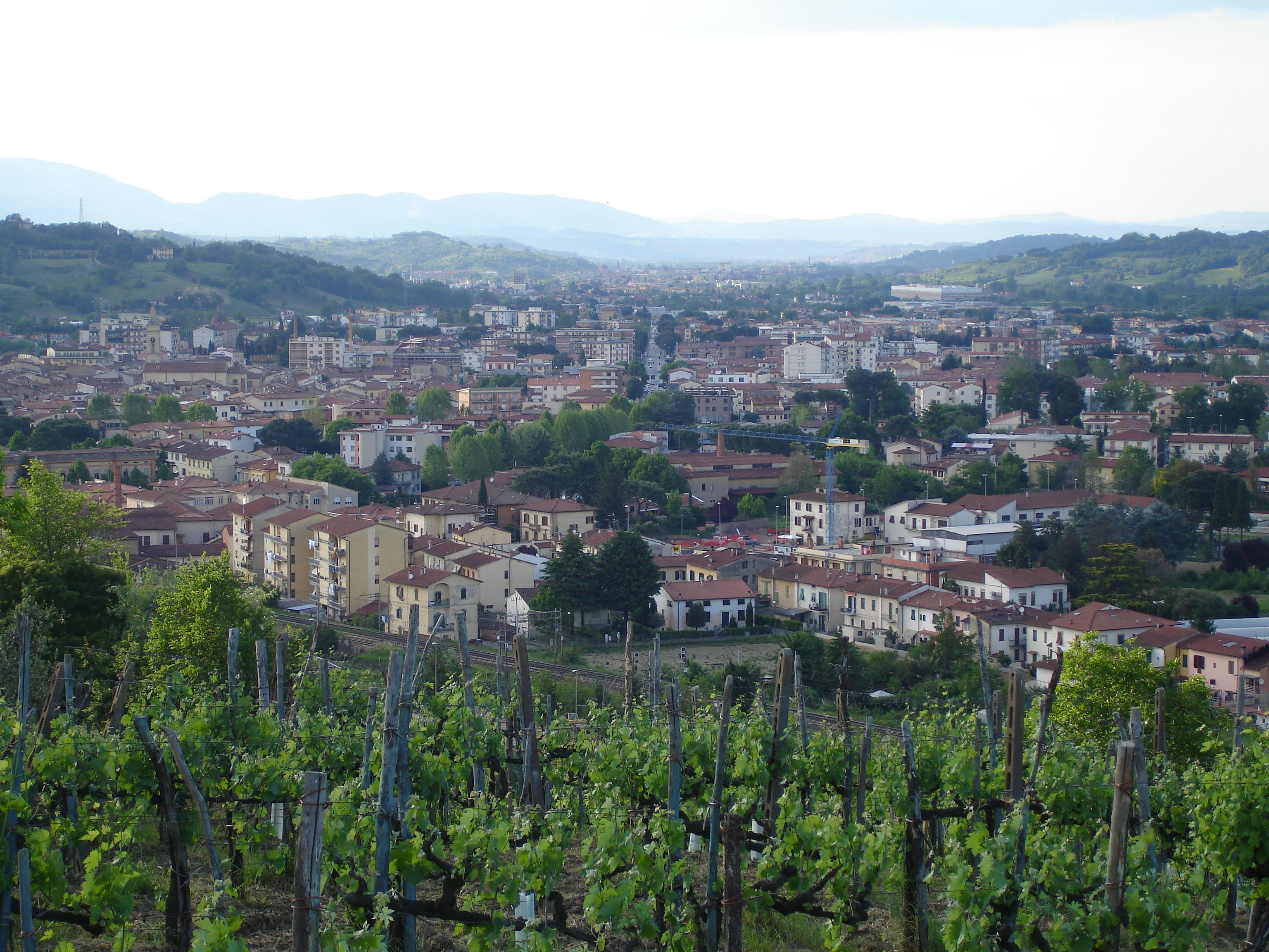 Panorama of the city of Montevarchi from Cecchettino Hill